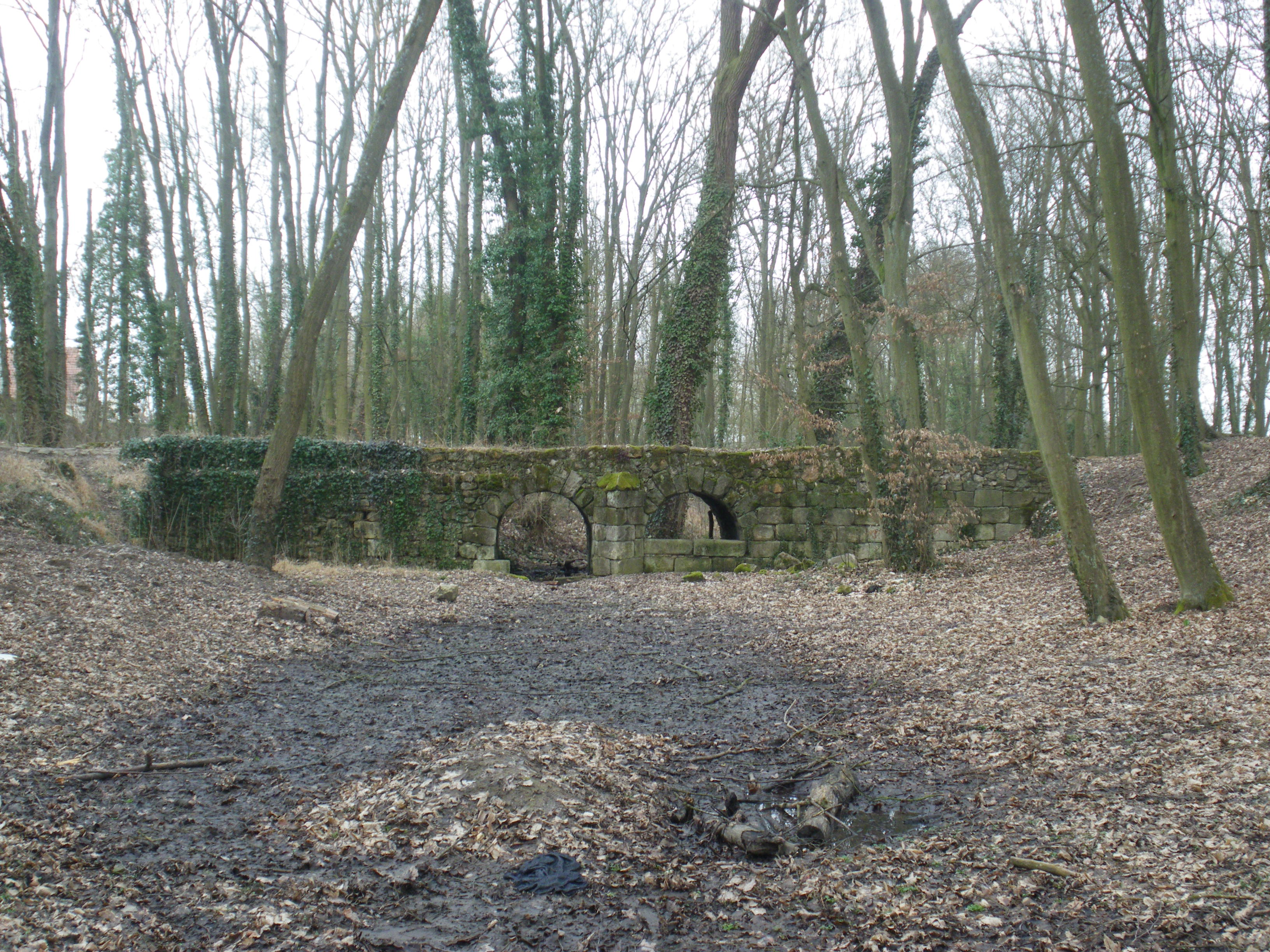 Templars bridge in Longjumeau, Essonne, France